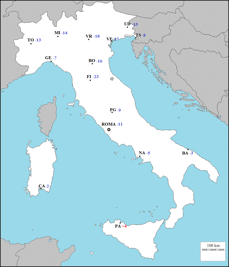 Temperature minime 1985 in Italia - Fonte